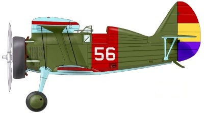 The I-15 Polikarpov No 56 flown by Frank Glasgow Tinker as part of the Yankee Squadron of the Spanish Republican Air Force, during the Spanish Civil War.